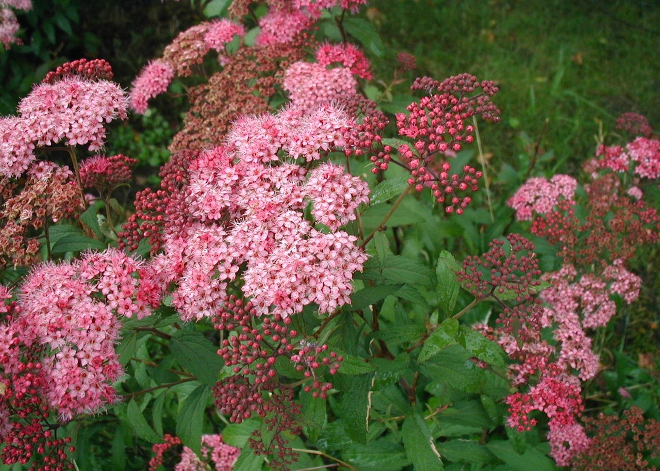 Spiraea japonica: Flower heads